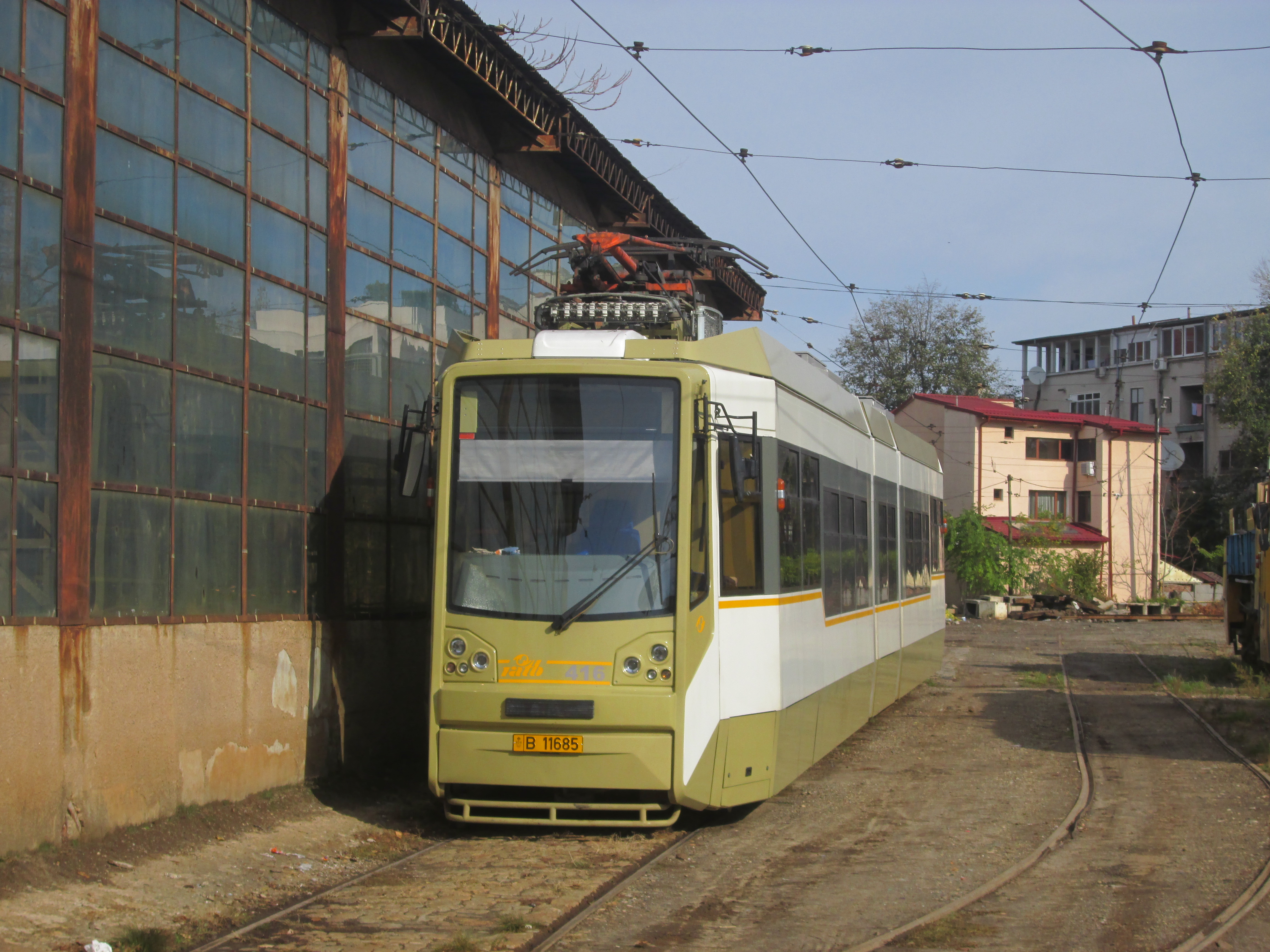 Tram number 416 (type Bucur LF) in Victoria tram depot. Interesting to see it here as its depot is actually Dudesti. These are the newest trams RATB uses, the prototype having been made in 2007 and series production having started in 2011, though only a few examples have been made.